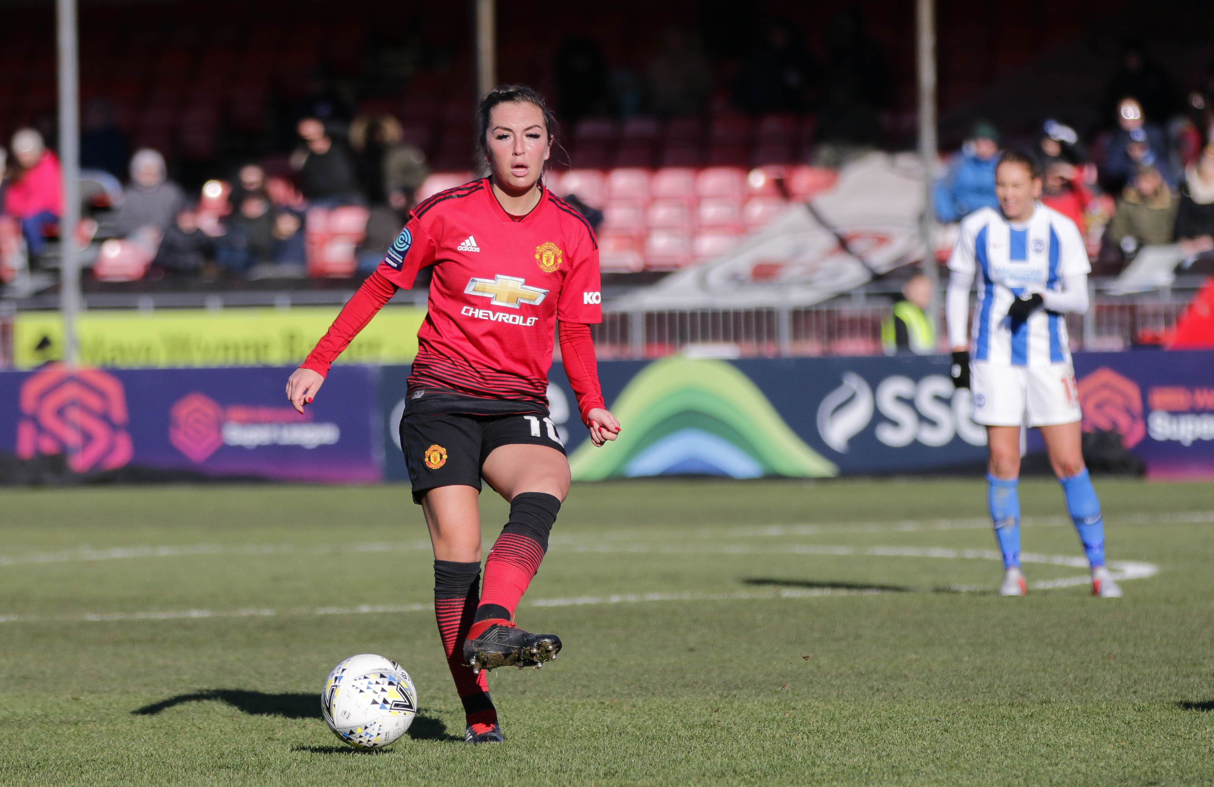 English footballer Katie Leigh Zelem playing for Manchester United Women F.C. in the 2018–19 season.